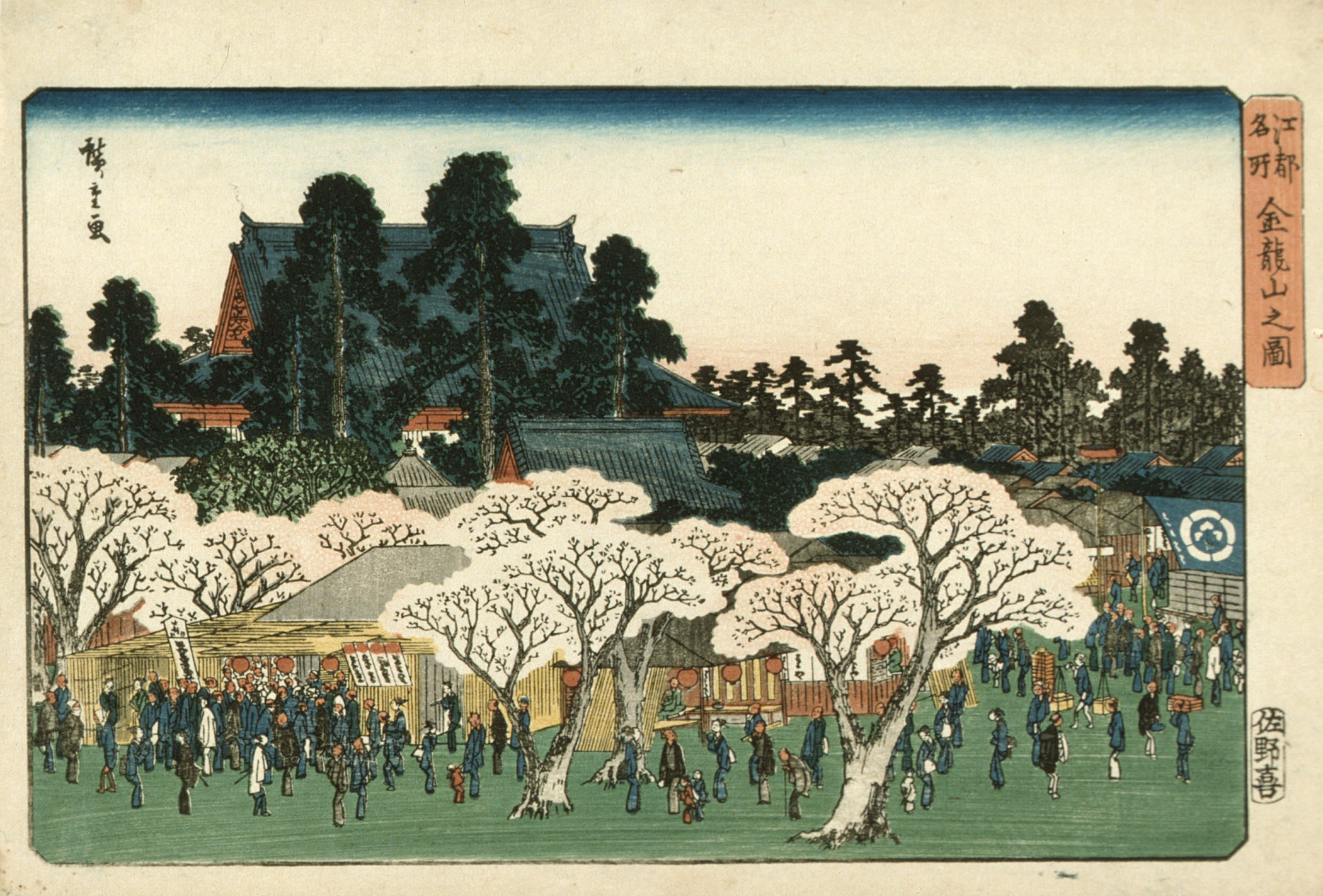 Japan, circa 1844 Alternate Title: Kinryuzan no zu Series: One Hundred Famous Views of Edo Prints; woodcuts Color woodblock print Image: 8 3/4 x 14 3/8 in. (22.2 x 36.5 cm); Sheet: 10 3/16 x 14 15/16 in. (25.9 x 37.9 cm) Los Angeles County Fund (16.14.29) Japanese Art